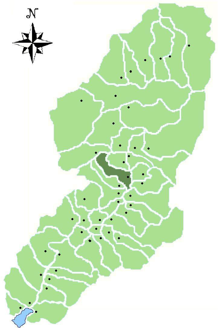 Map of the Comune di Capo di Ponte, Valle Camonica